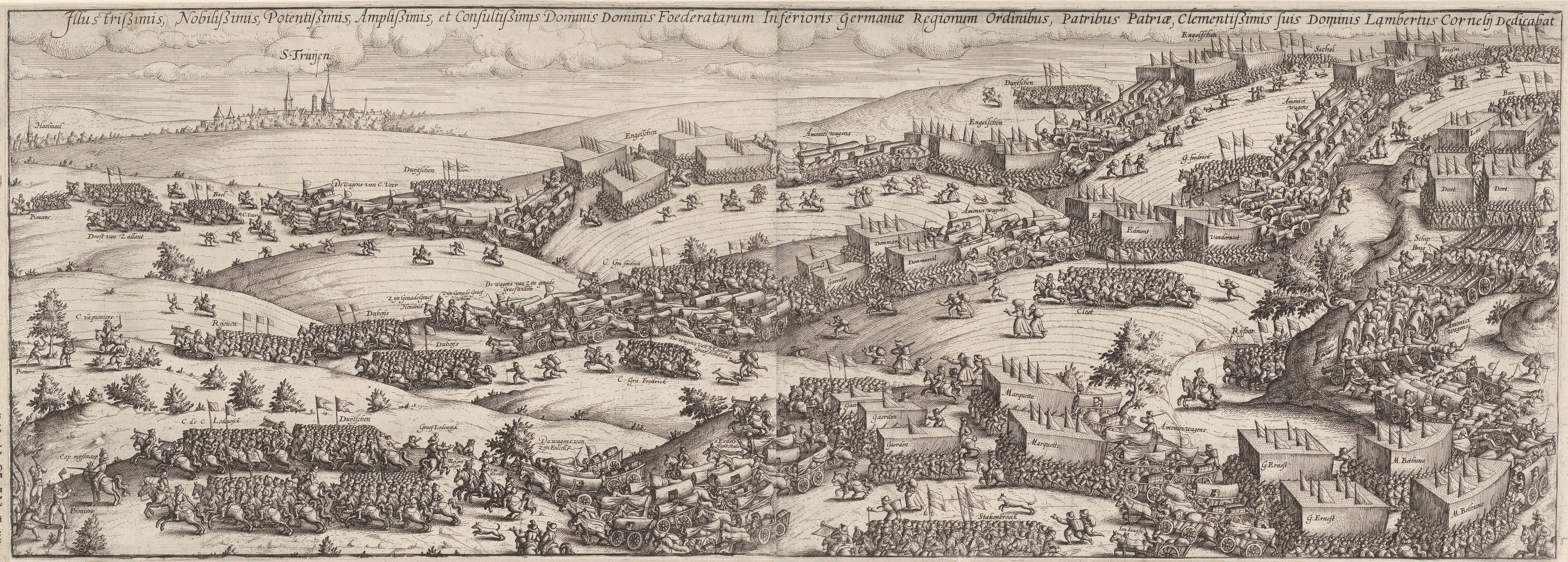 March of Maurice's army through Brabant to Grave, 1602, during the Siege of Ostende.